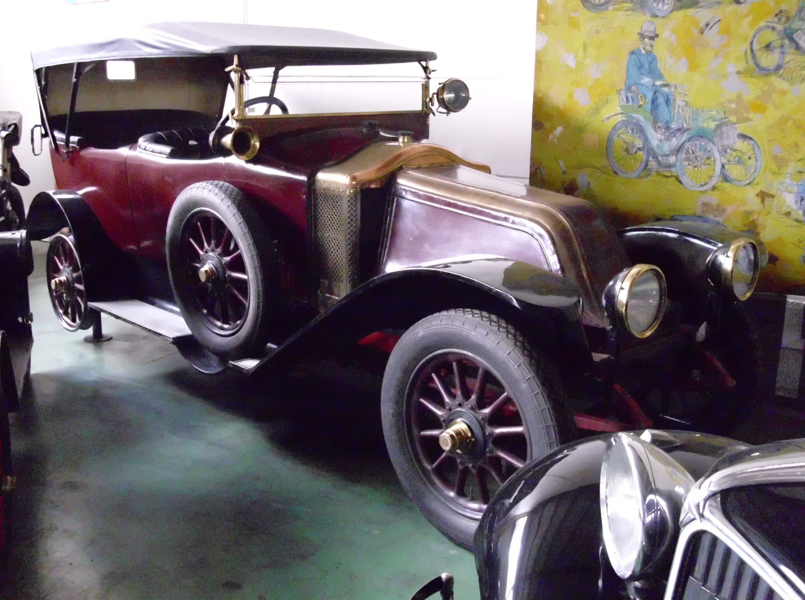 Renault Type HG Torpedo 1920